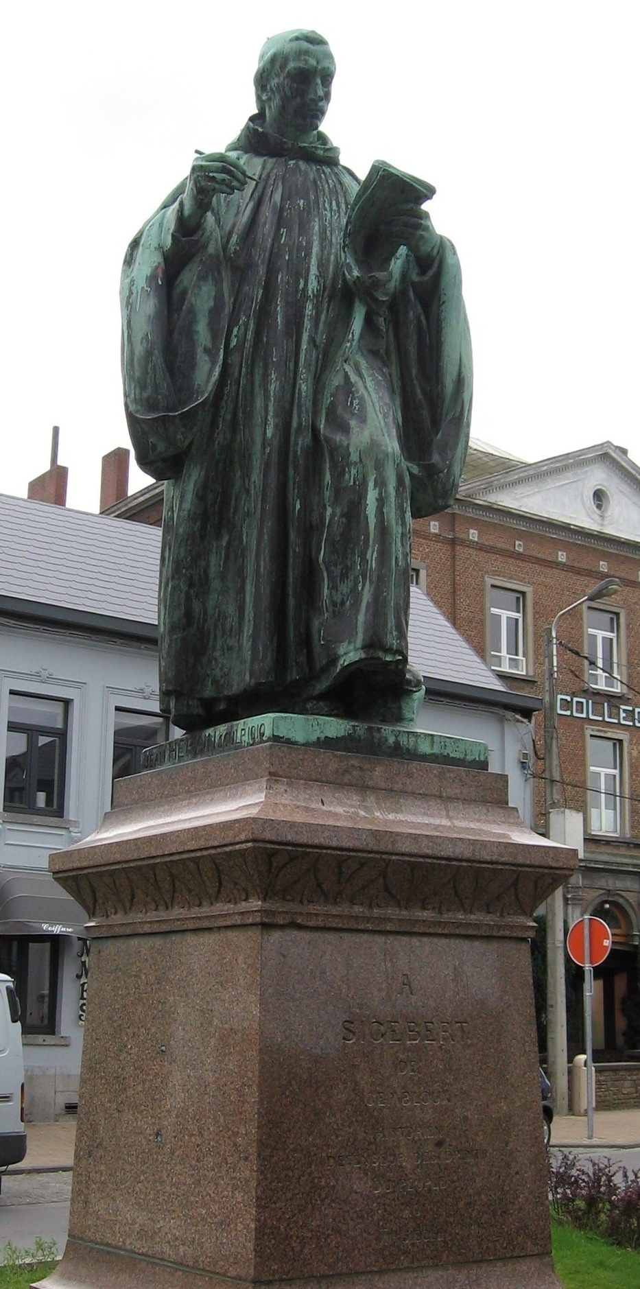 Statue of Sigebert of Gembloux, monk, historian and Middle-Age chronicler (on the city of Gembloux's main square)